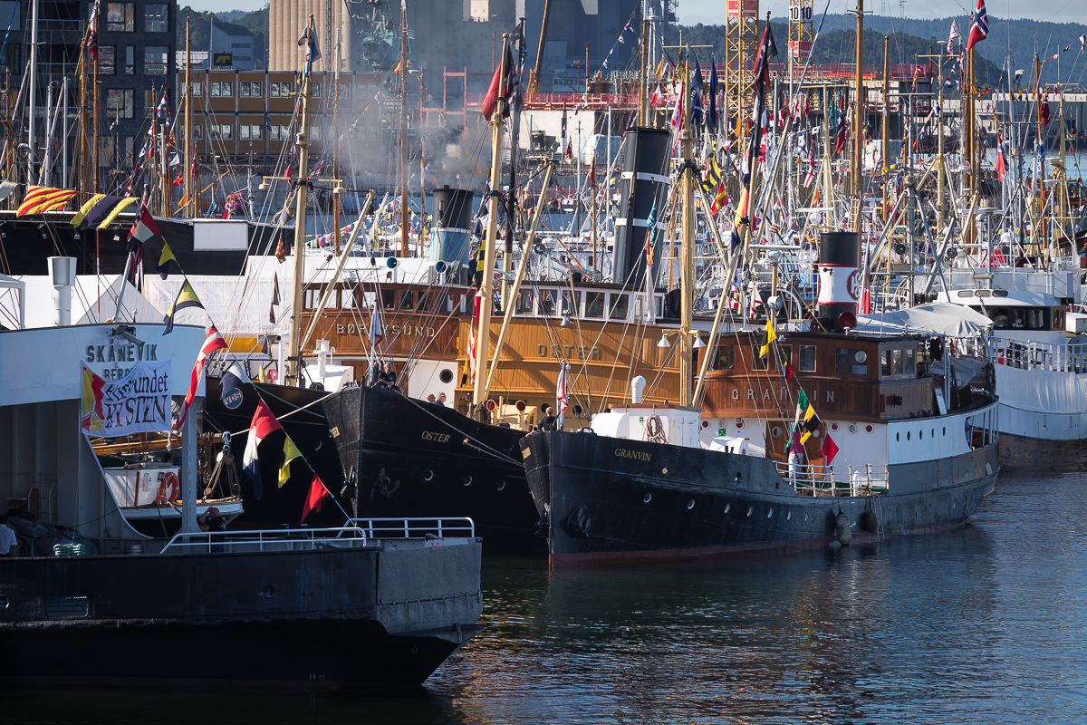 DS Børøysund, DS Oster and DS Granvin participating in Kyststevnet 2014 in Oslo, Norway